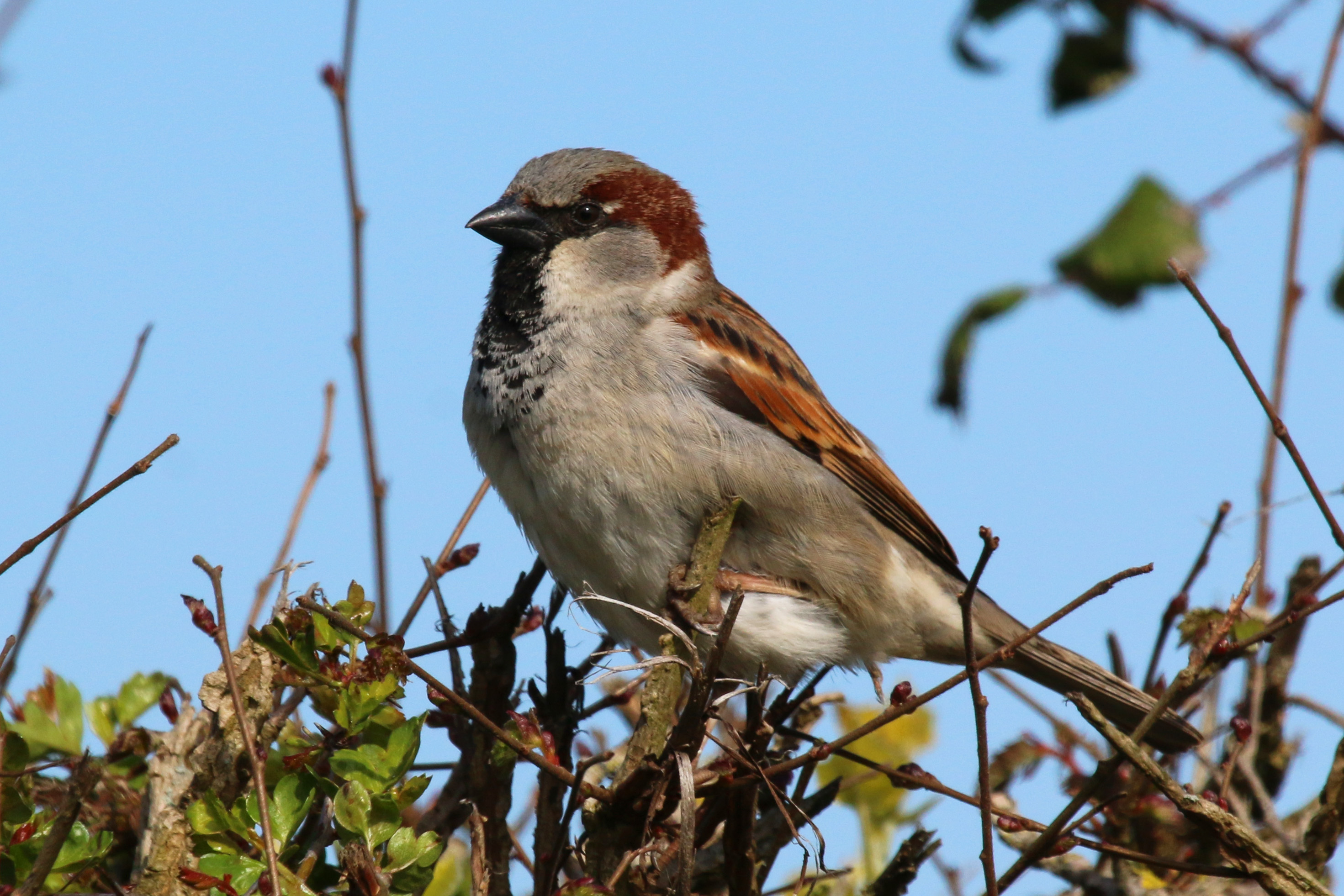 House sparrow (Passer domesticus), Beckley, Oxfordshire